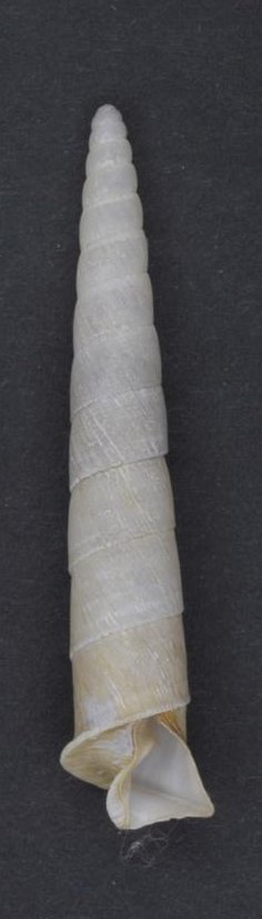 crop of file in file name